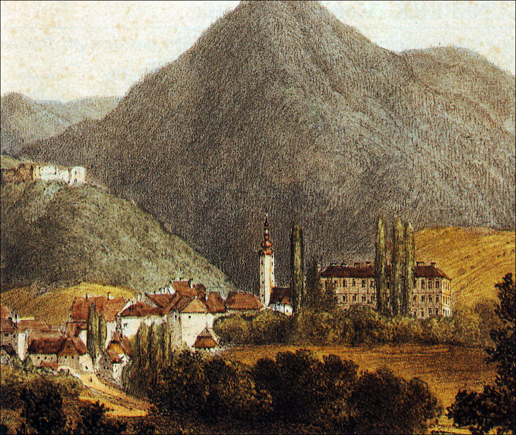 Kozje Castle